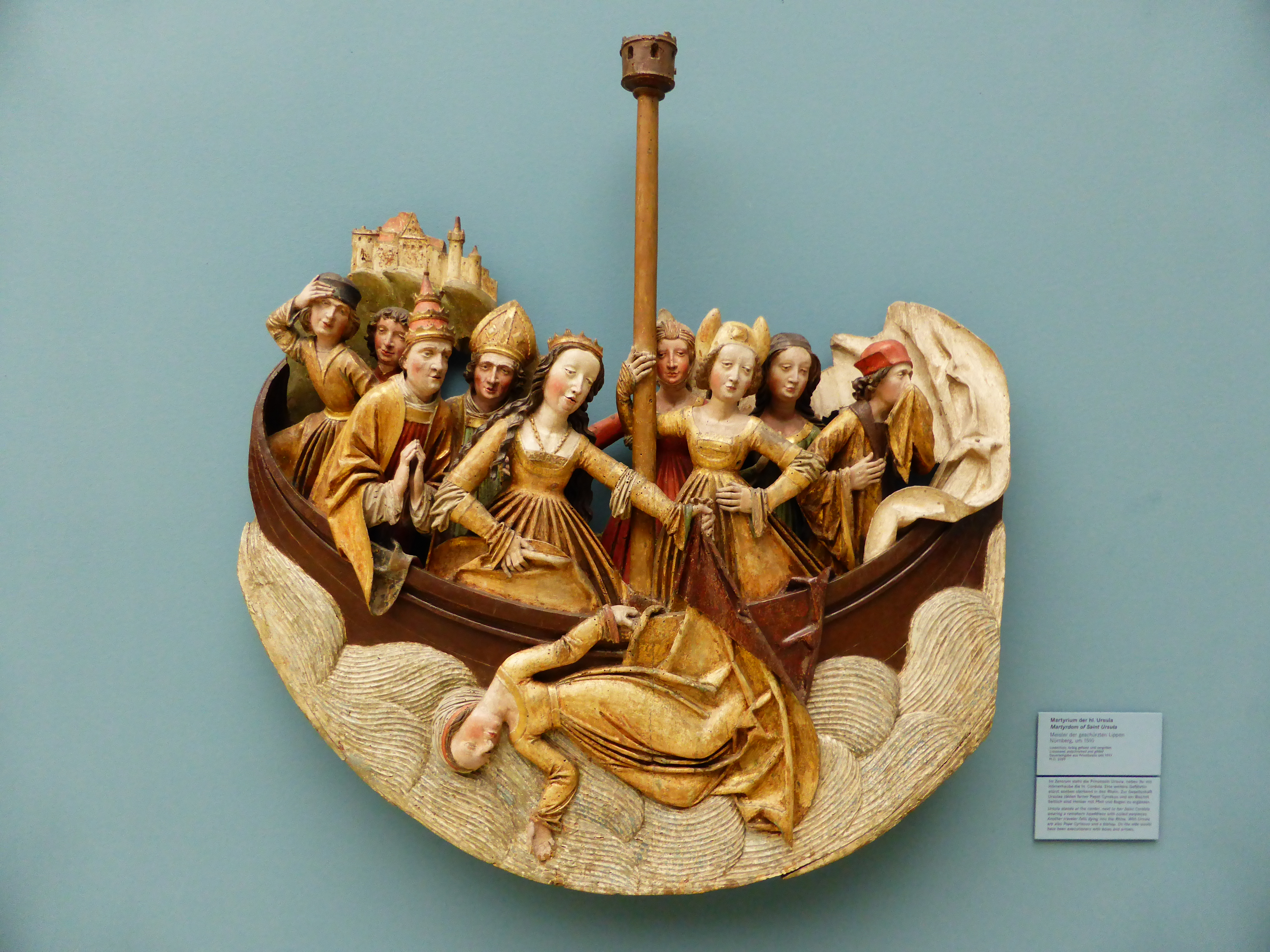 Germany, Bayern, Nuremberg Martyrium der hl. Ursula Germanisches Nationalmuseum Native nameGermanisches NationalmuseumLocationNuremberg, Bavaria, GermanyCoordinates49° 26′ 54″ N, 11° 04′ 32″ E Established1852Web page control : Q478695 VIAF: 141301188 ISNI: 0000 0001 2161 603X ULAN: 500303791 LCCN: n81047063 NLA: 36224635 WorldCat institution QS:P195,Q478695